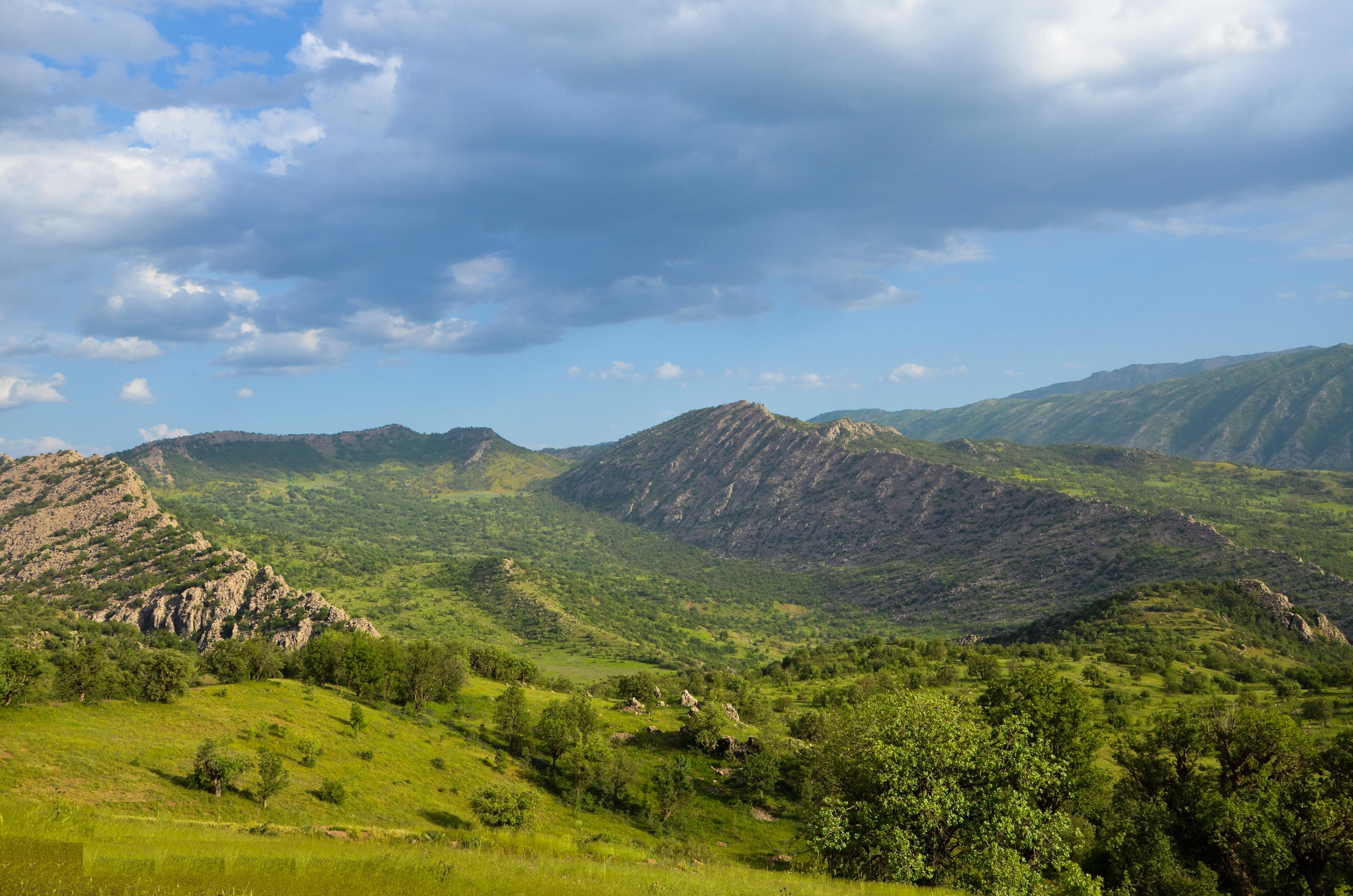 Elye is a forested Valley located in southeast Pendro village. One of the most prominent features of the valley is a spring called "Kani Jefre" Kurdî: ئەلێ دولیکی پرە لە دارو گژوگیا کە دەکەوێتە گوندی پێندرو ،وە هەروەها شوینیکە بو کوشتوکال و مەرومالات بەخیوکردن،،، ئەم وینەیە لەلای بەرێز سەوری نەسرەدین دێزوی گیراوە